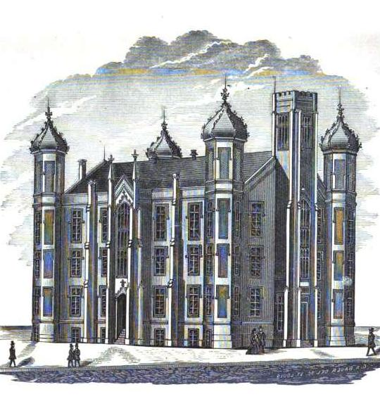 Drawing of Central High School, the first high school in St. Louis, Missouri, as it appeared in 1875